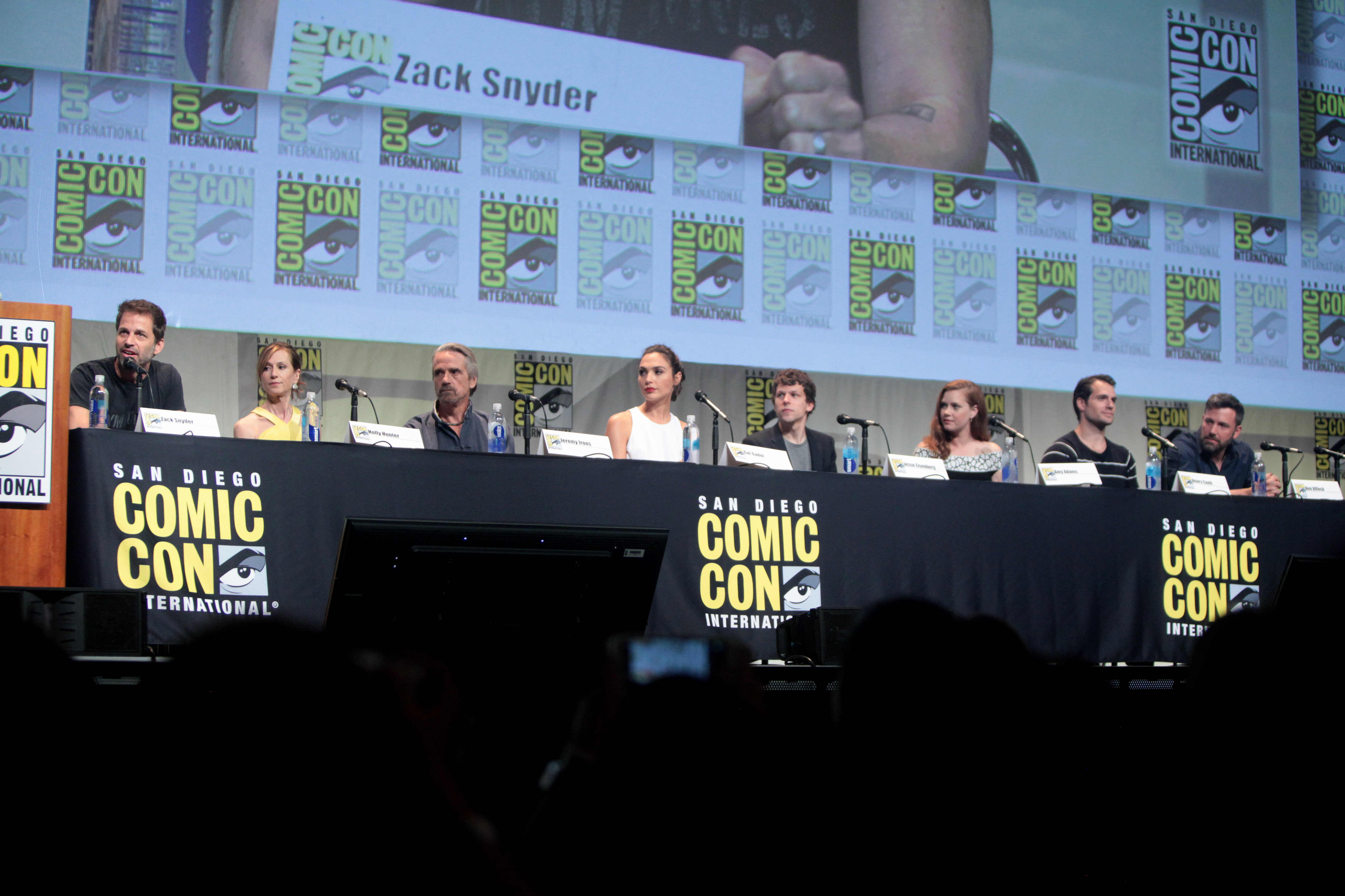 Zack Snyder, Holly Hunter, Jeremy Irons, Gal Gadot, Jesse Eisenberg, Amy Adams, Henry Cavill and Ben Affleck speaking at the 2015 San Diego Comic Con International, for "Batman v Superman: Dawn of Justice", at the San Diego Convention Center in San Diego, California.